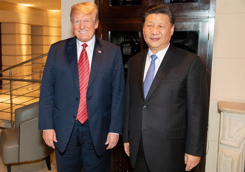 U.S. President Donald Trump and PRC President, CCP General Secretary Xi Jinping at G20 Buenos Aires Summit, before the working dinner